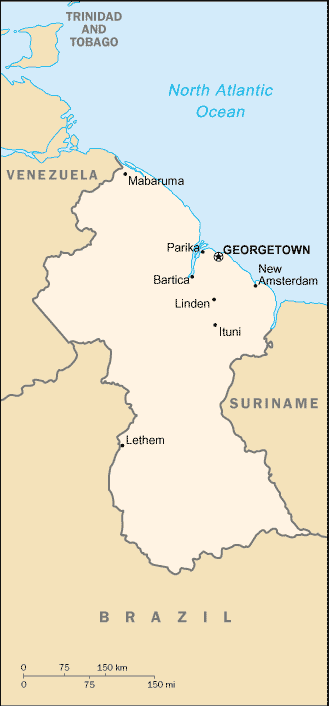 Map of Guyana from the 2002 CIA Factbook.